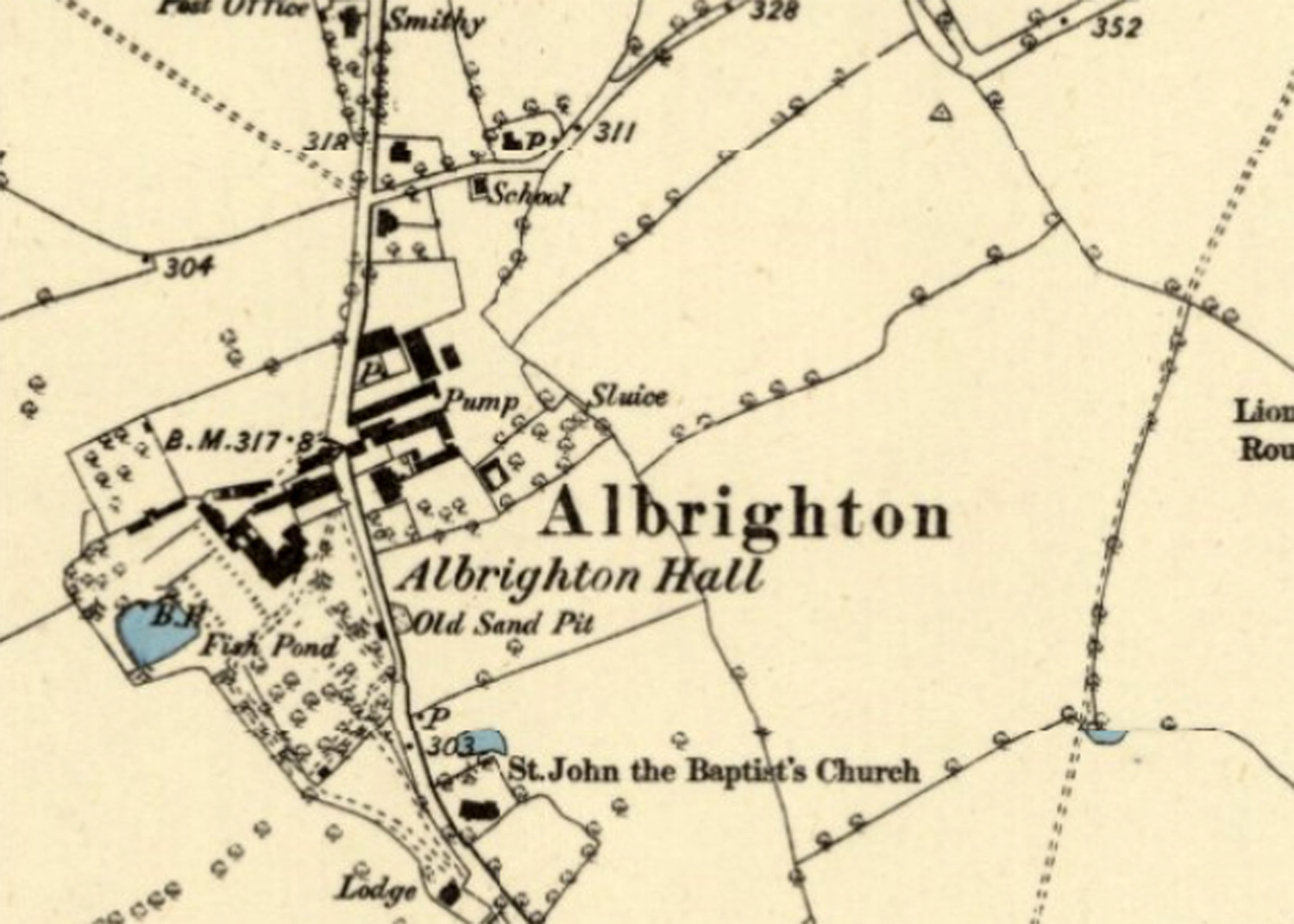 Map of Albrighton, Shrewsbury, 1881